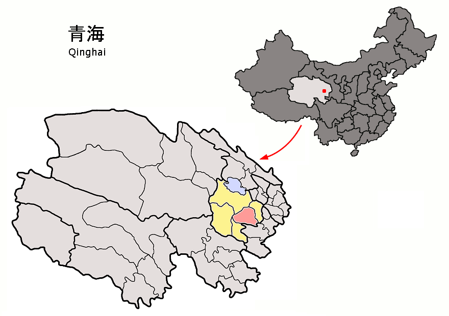 Location of Guinan County (pink) and Hainan Prefecture (yellow) within Qinghai province of China Map drawn in september 2007 using various sources, mainly : Qinghai province administrative regions GIS data: 1:1M, County level, 1990 Qinghai Counties map from "Plateau Perspectives" (the limits of some county-level subdivisions may not be accurate)